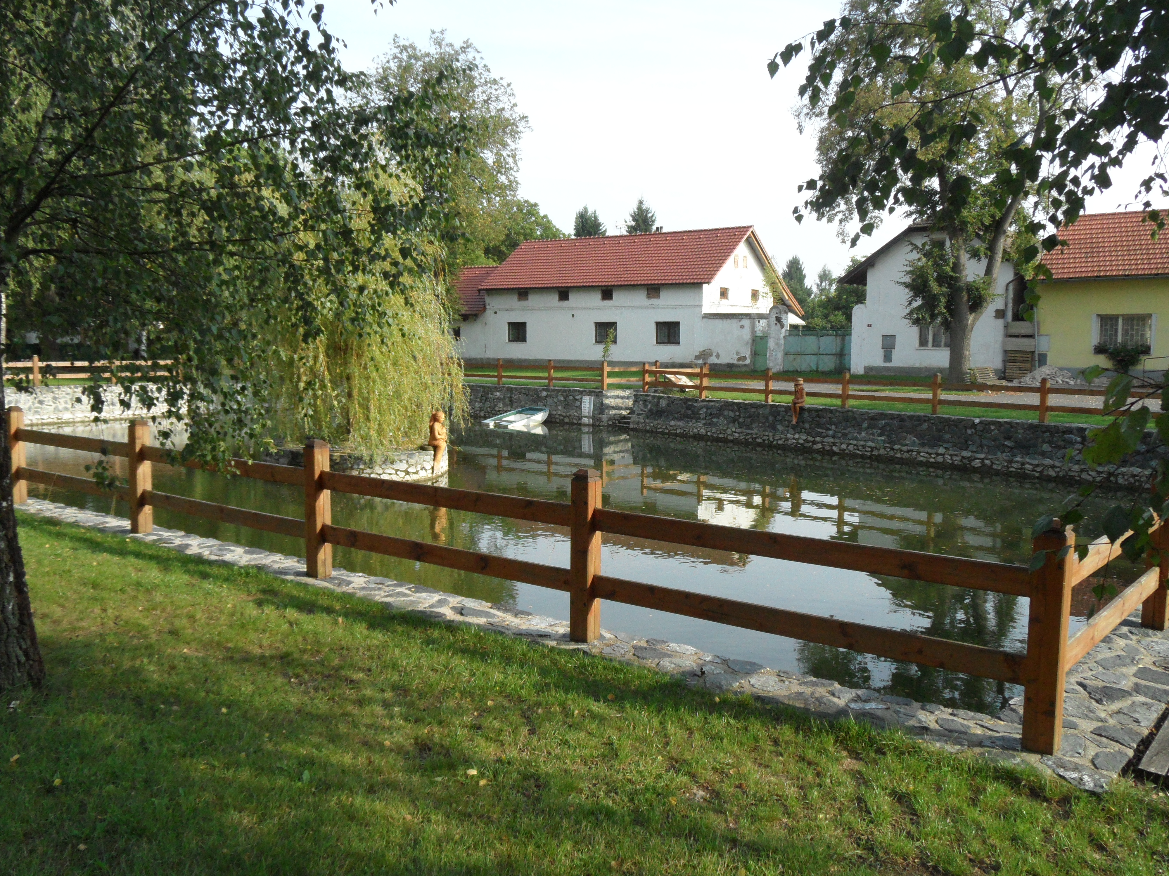 Oseček G. Small Pond and Houses in Background, Nymburk District, the Czech Republic.